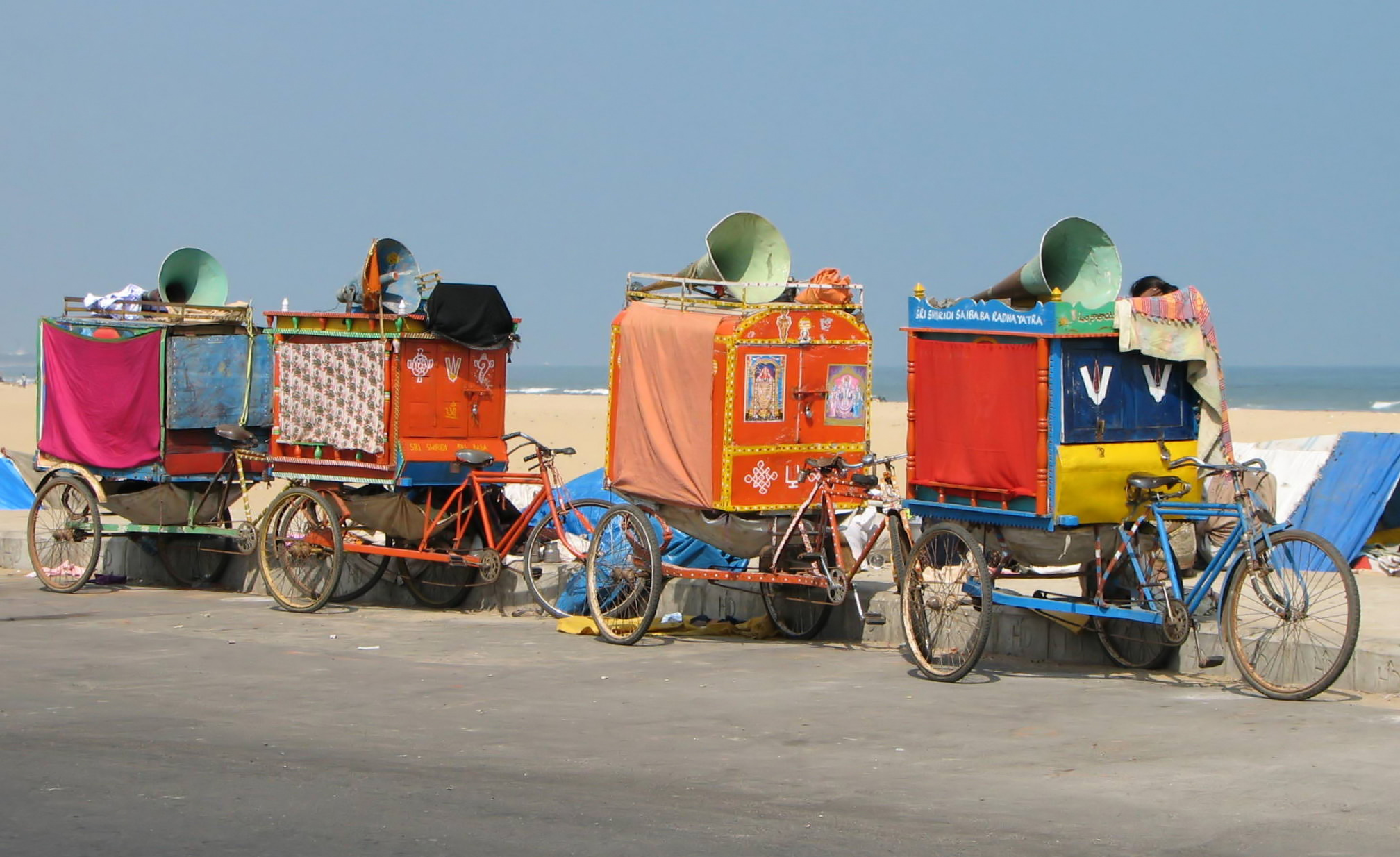 Cycle rickshaws used by a street theatre company, Chennai, India